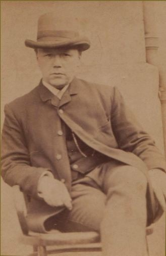 Elias Stark